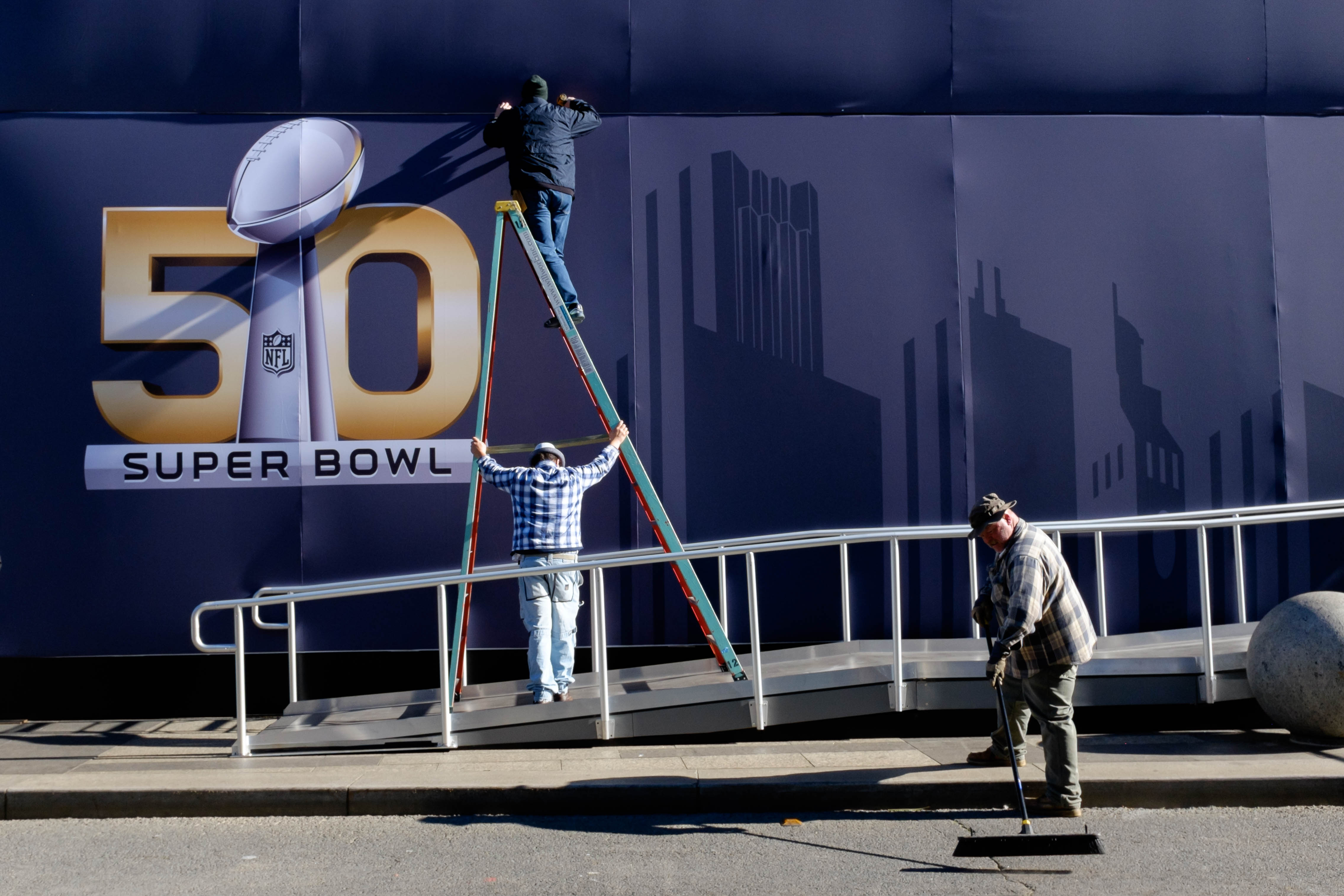 Super Bowl 50 decorations in San Francisco, 2016